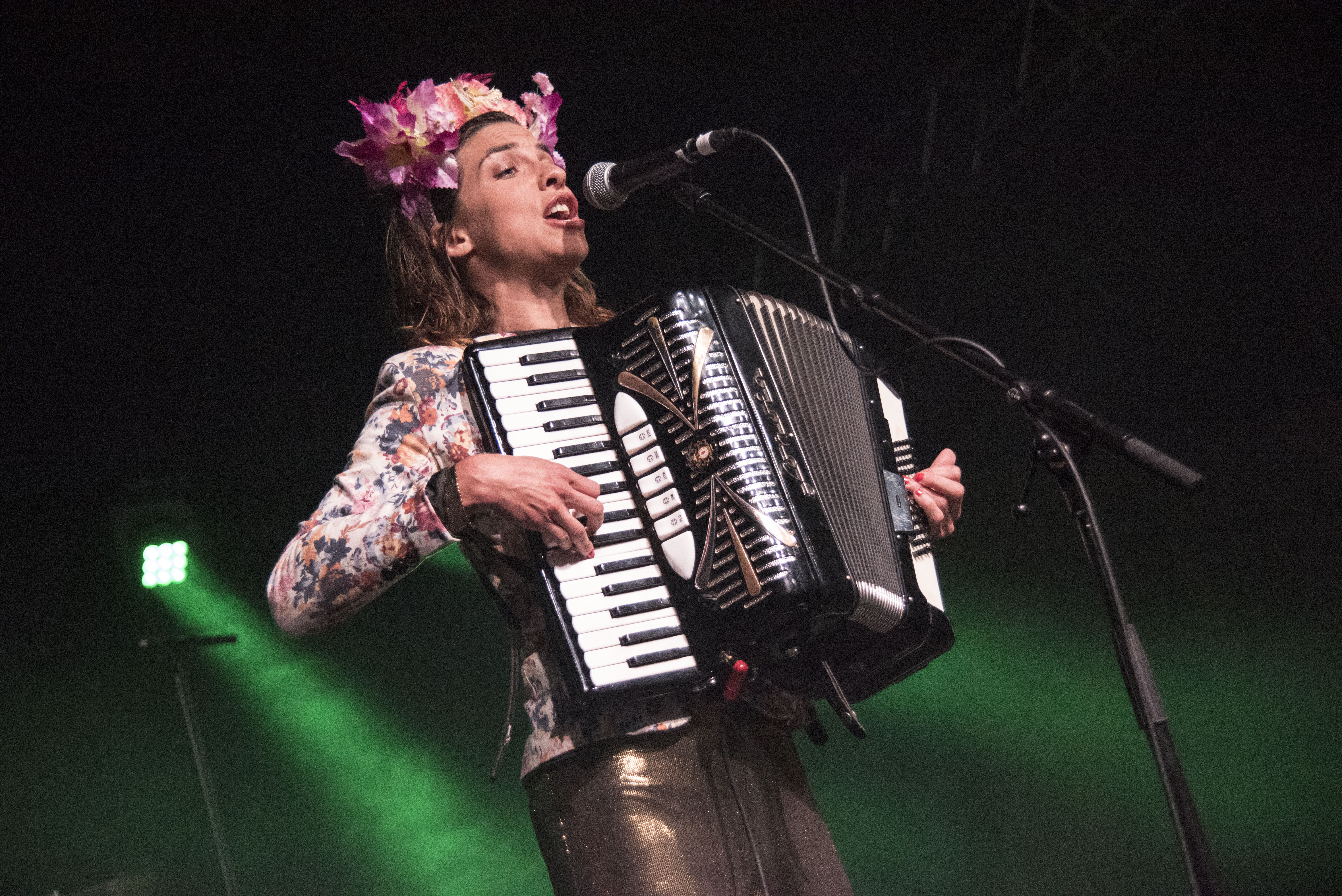 Underneath the Stars Festival, Cannon Hall Farm, Cawthorne